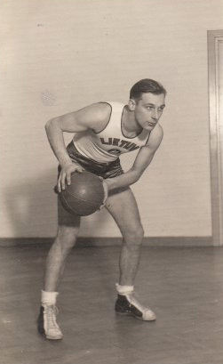 Basketball player and coach Feliksas Kriaučiūnas with Lithuania national basketball team jersey.